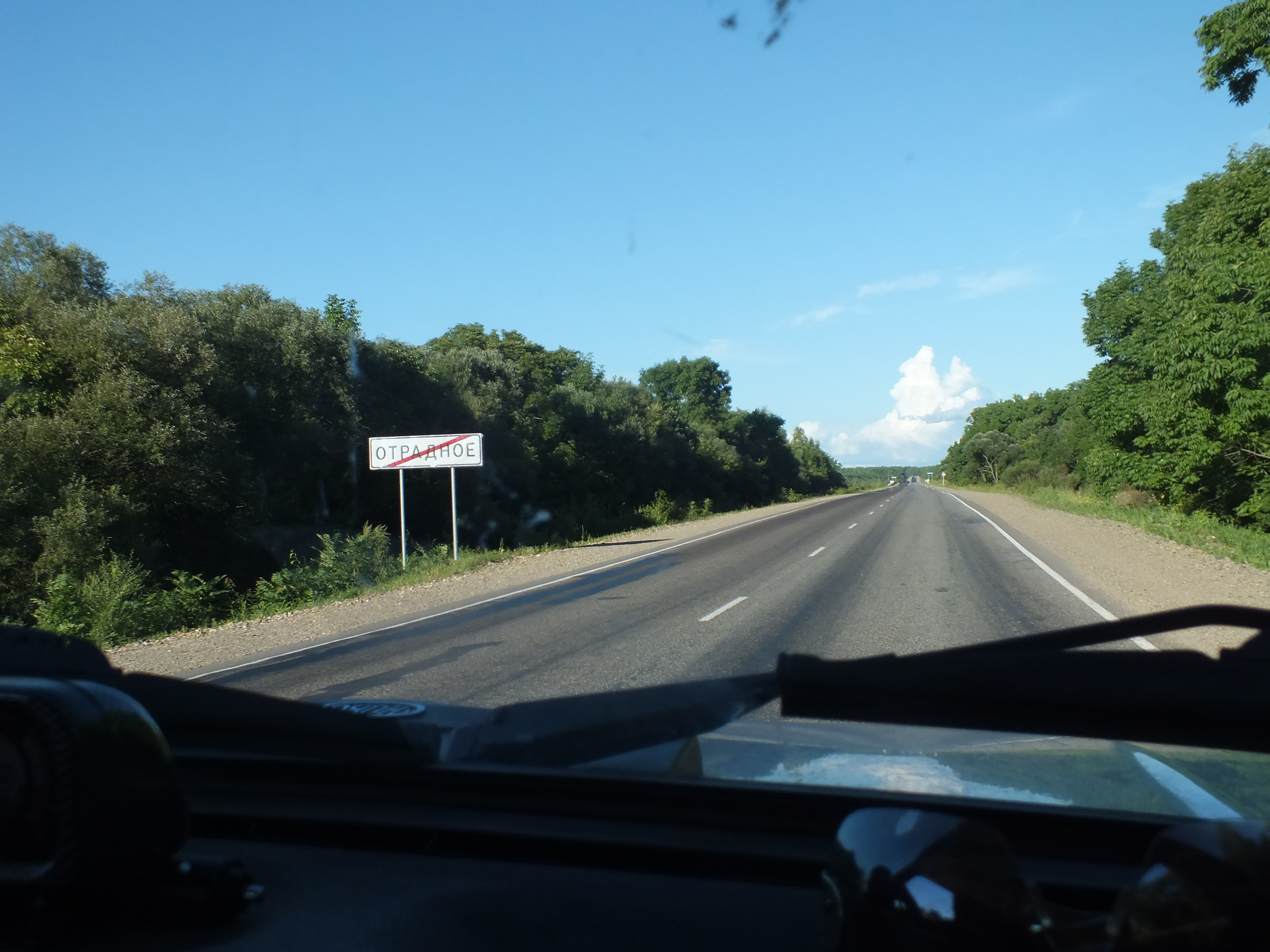 Otradnoye Khabarovskiy kray